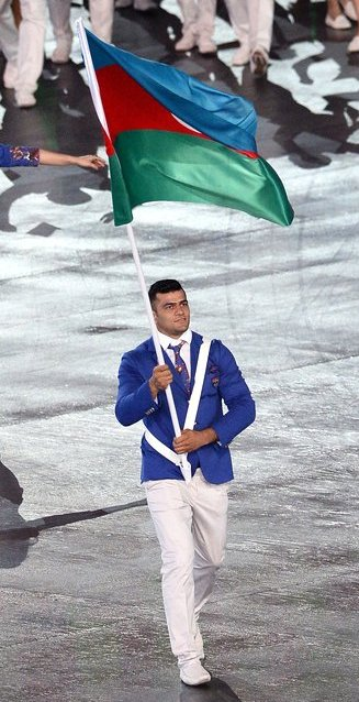 Elmar Gasimov at the opening ceremony of the first European games